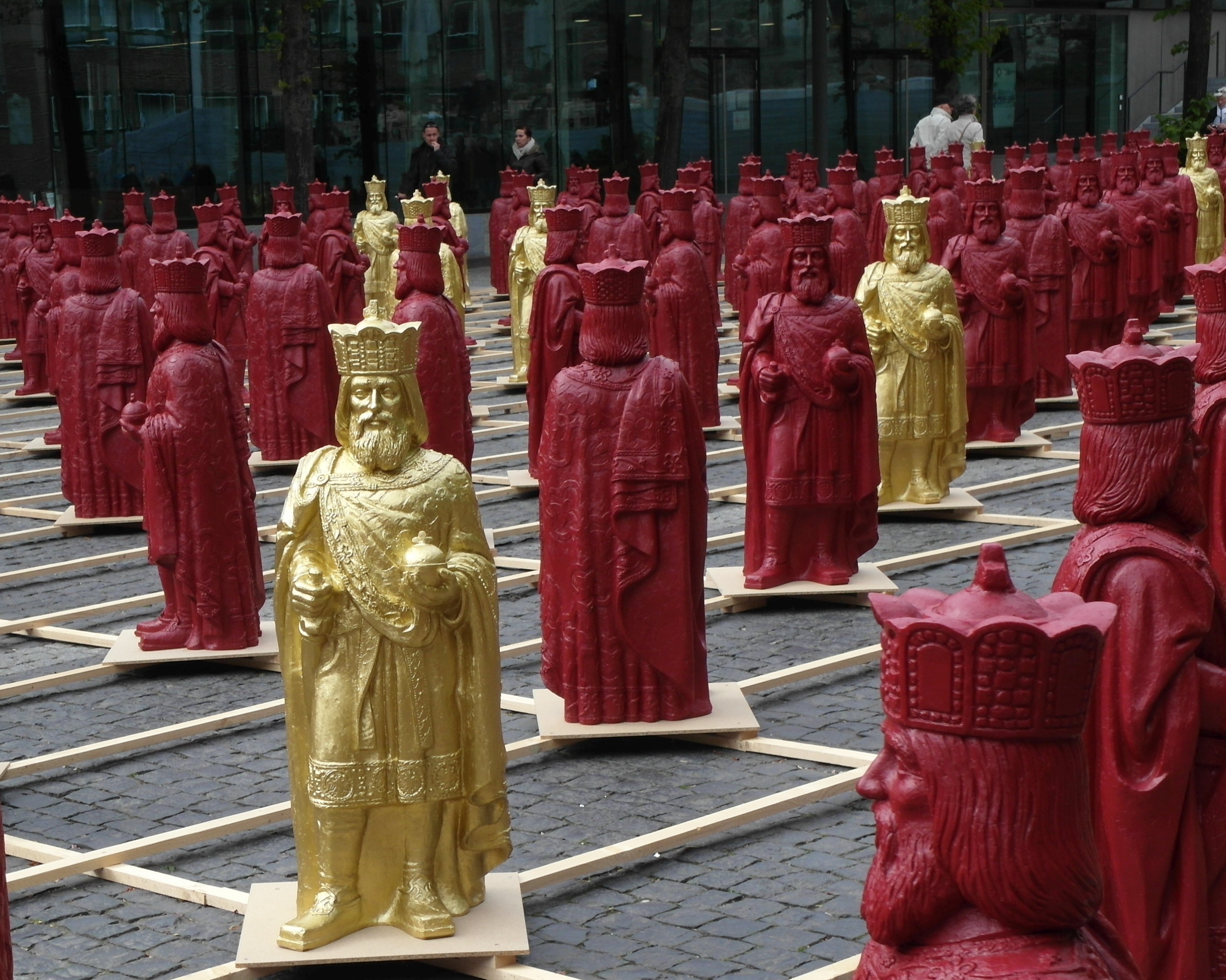 Art installation "Mein Karl 2014" by Ottmar Hörl on the Katschhof place in Aachen, Germany, on occasion of the 1200th anniversary of the death of Charlemagne